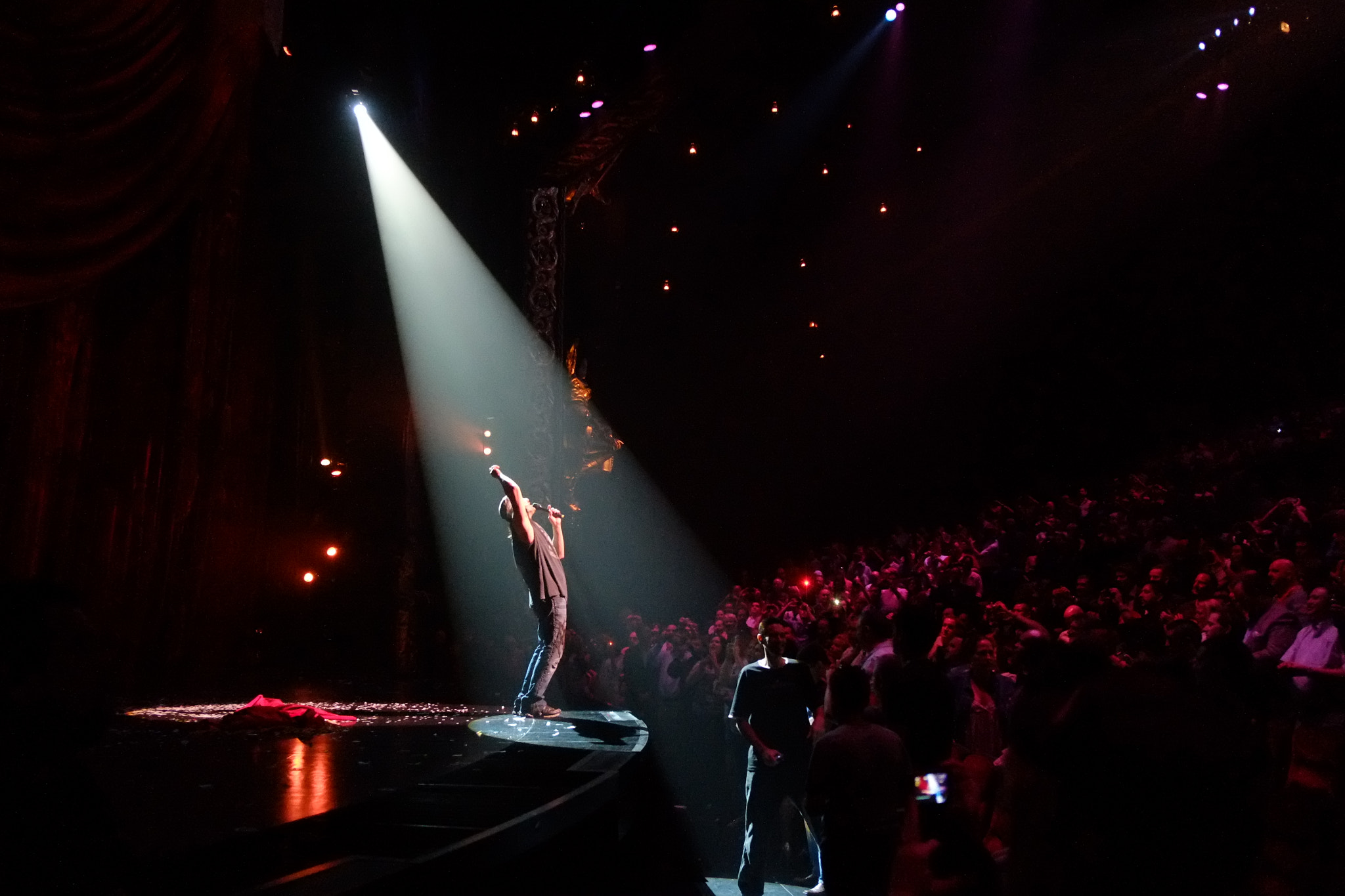 500px provided description: Criss Angel Believe Las Vegas At The Luxor